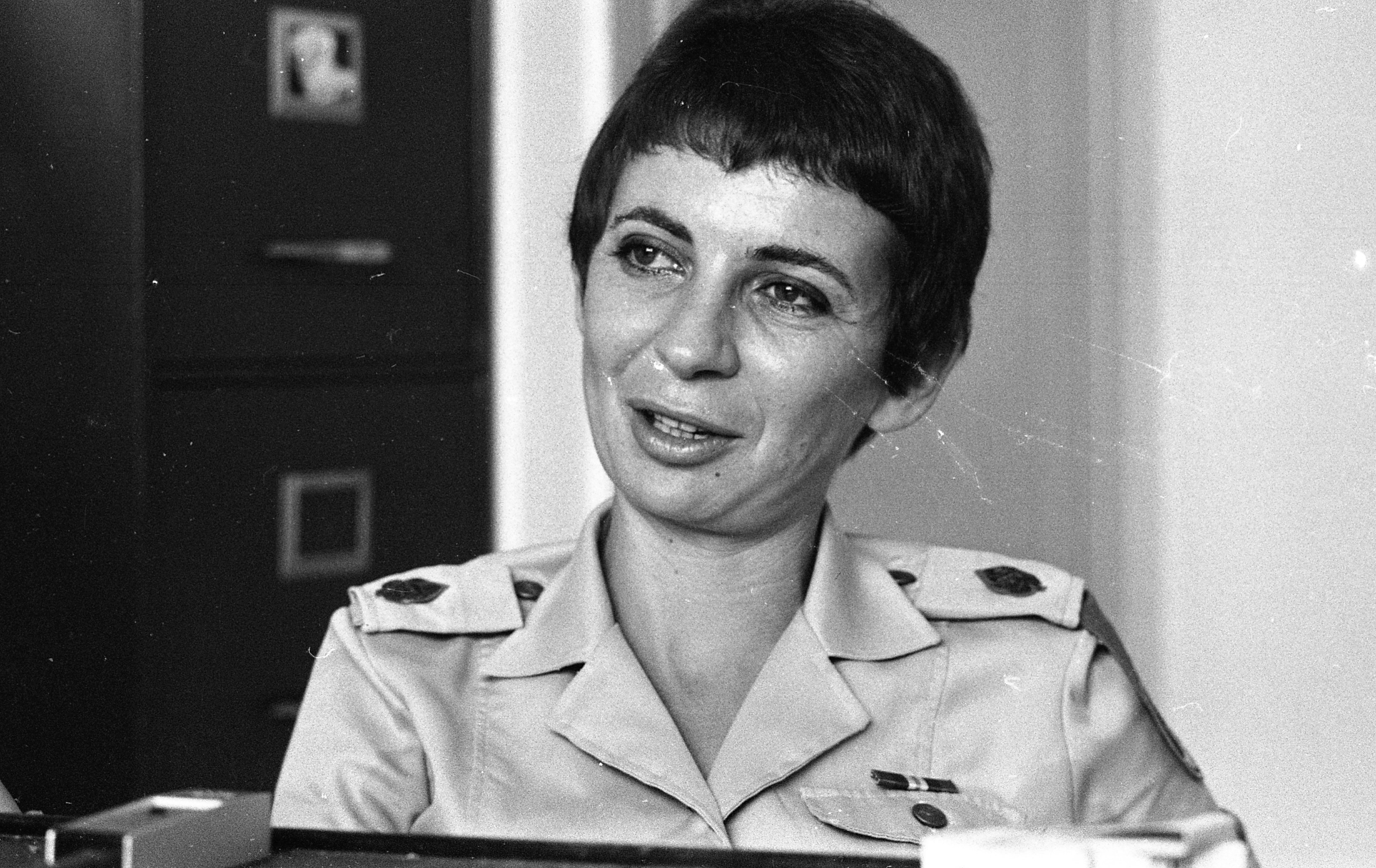 Hava Inbar, the first female judge in the world in military court.